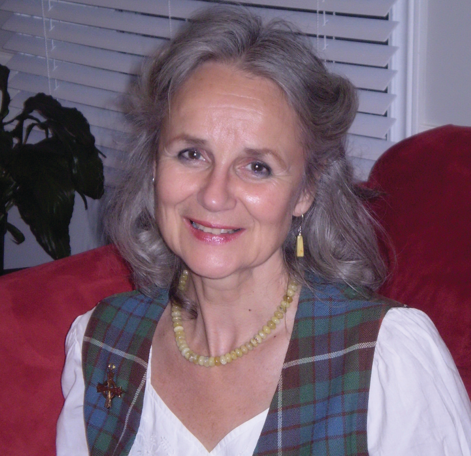 Margaret Bennett (folklorist, ethnologist and prize-winning author).